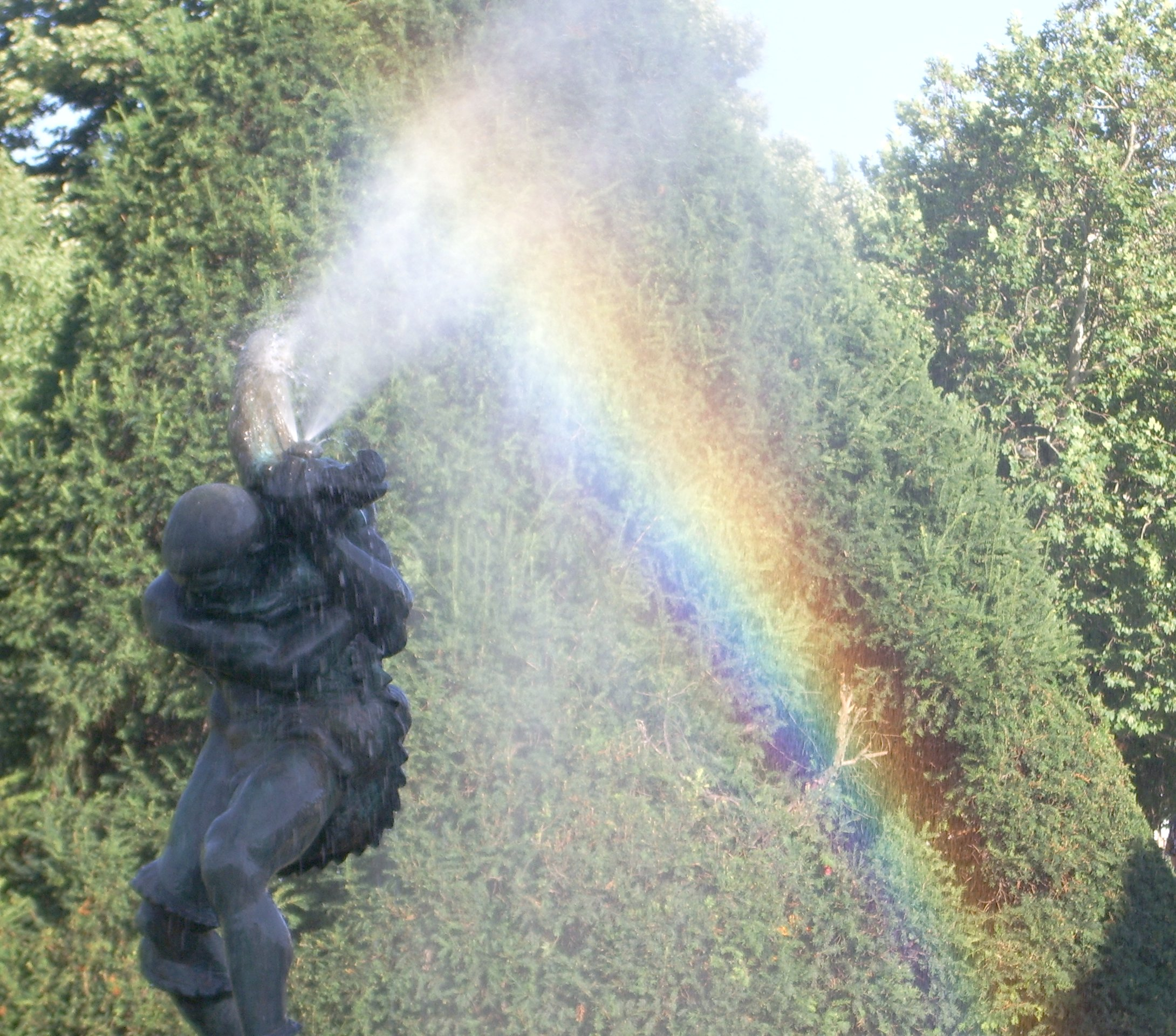 A rainbow over the "hydra fighter" fountain in Rousse, Bulgaria. The image was processed with GIMP (cropped to cut off passers-by, and the histogram was stretched in its lower part to brighten the originally dark statue).